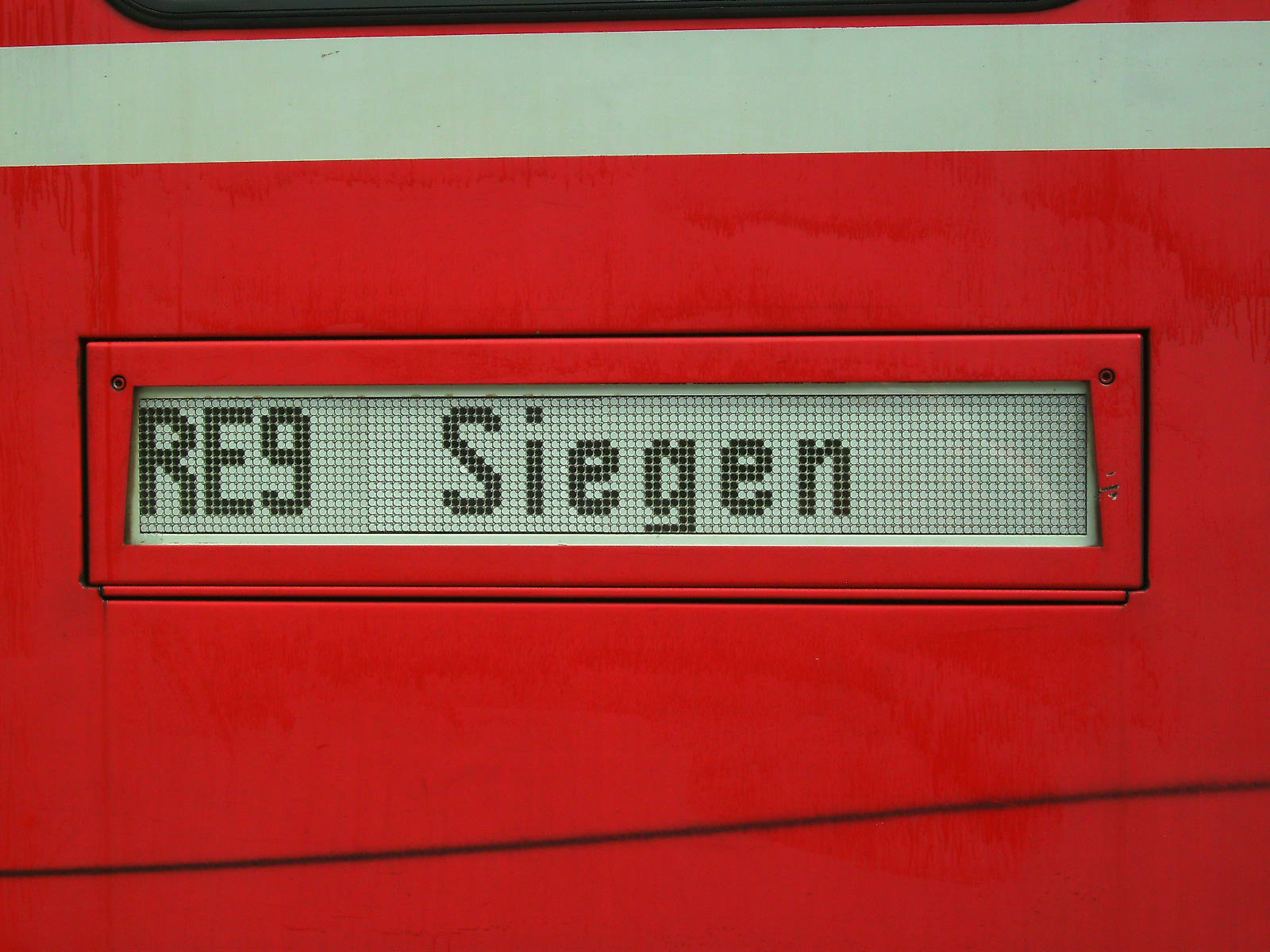 train information "RE9 Siegen"